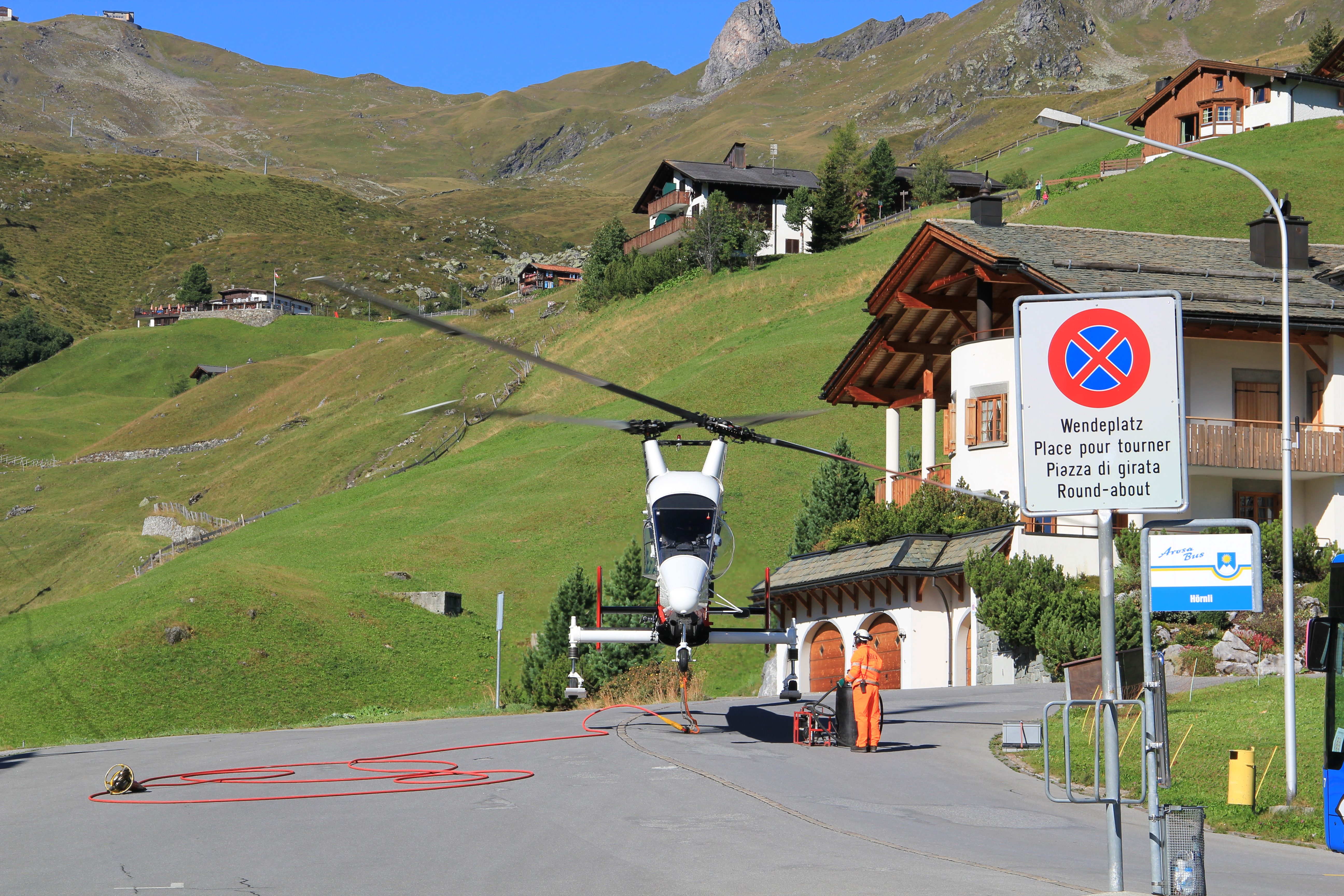 Kaman K-1200 K-Max in hover flight just before refueling in Arosa, Schwitzerland